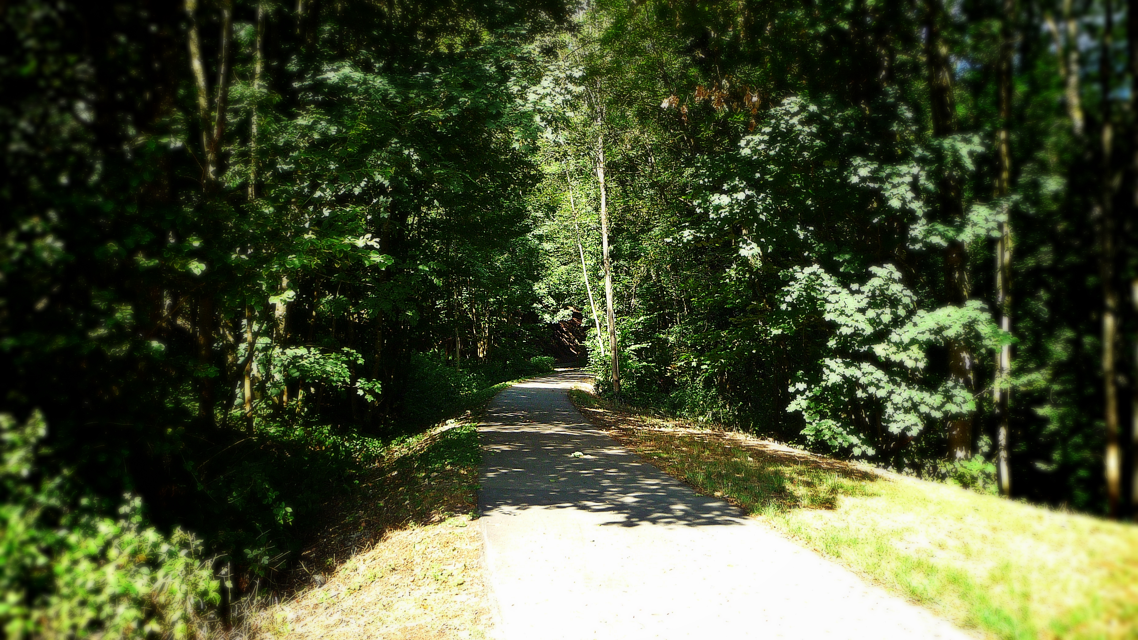 The former line of the Neckarsteinach-Schoenau railway.